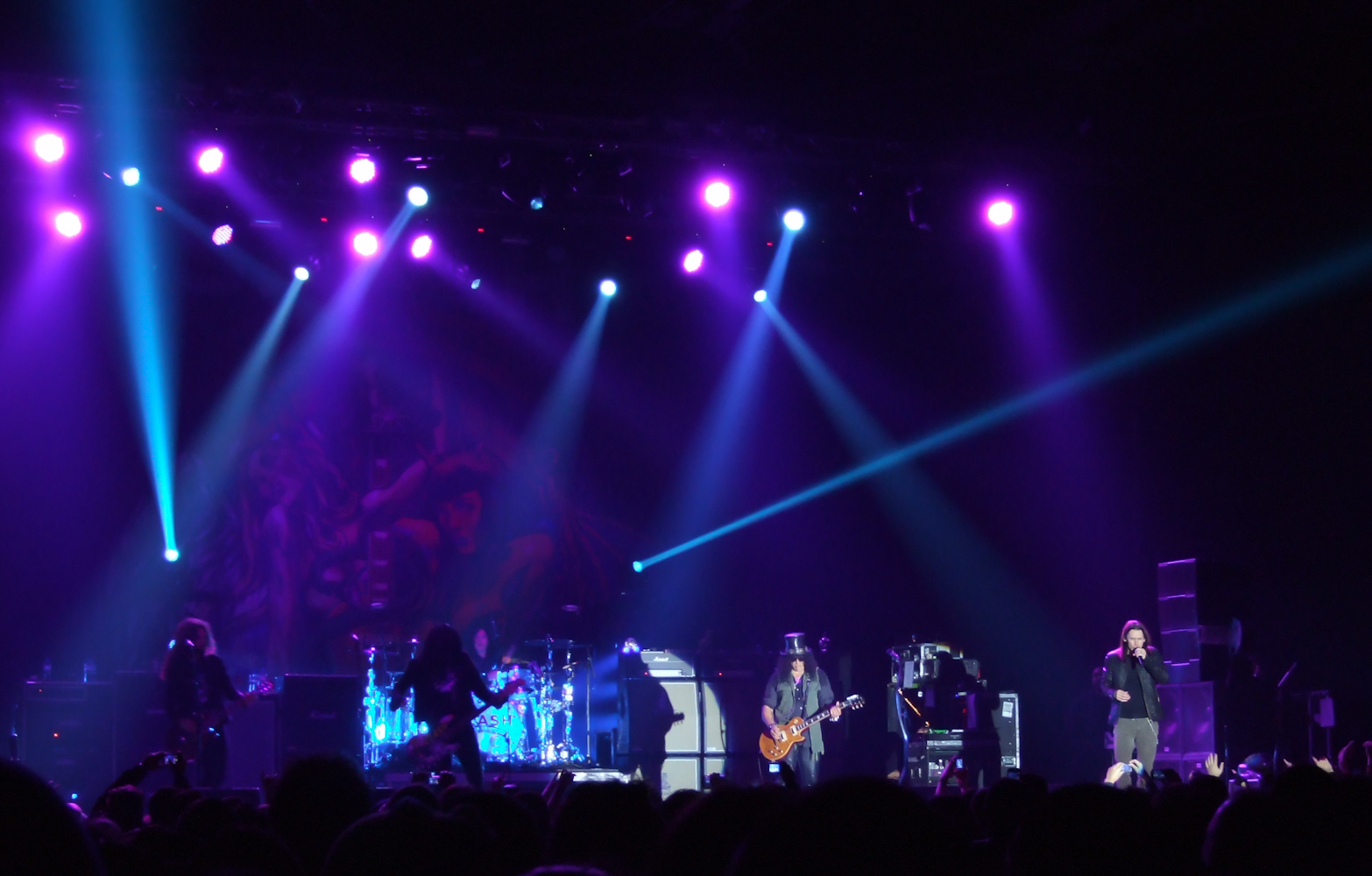 The American rock guitarist Slash performing live with his band at Festivalna hall, Sofia, during their Apocalyptic Love World Tour 2013.